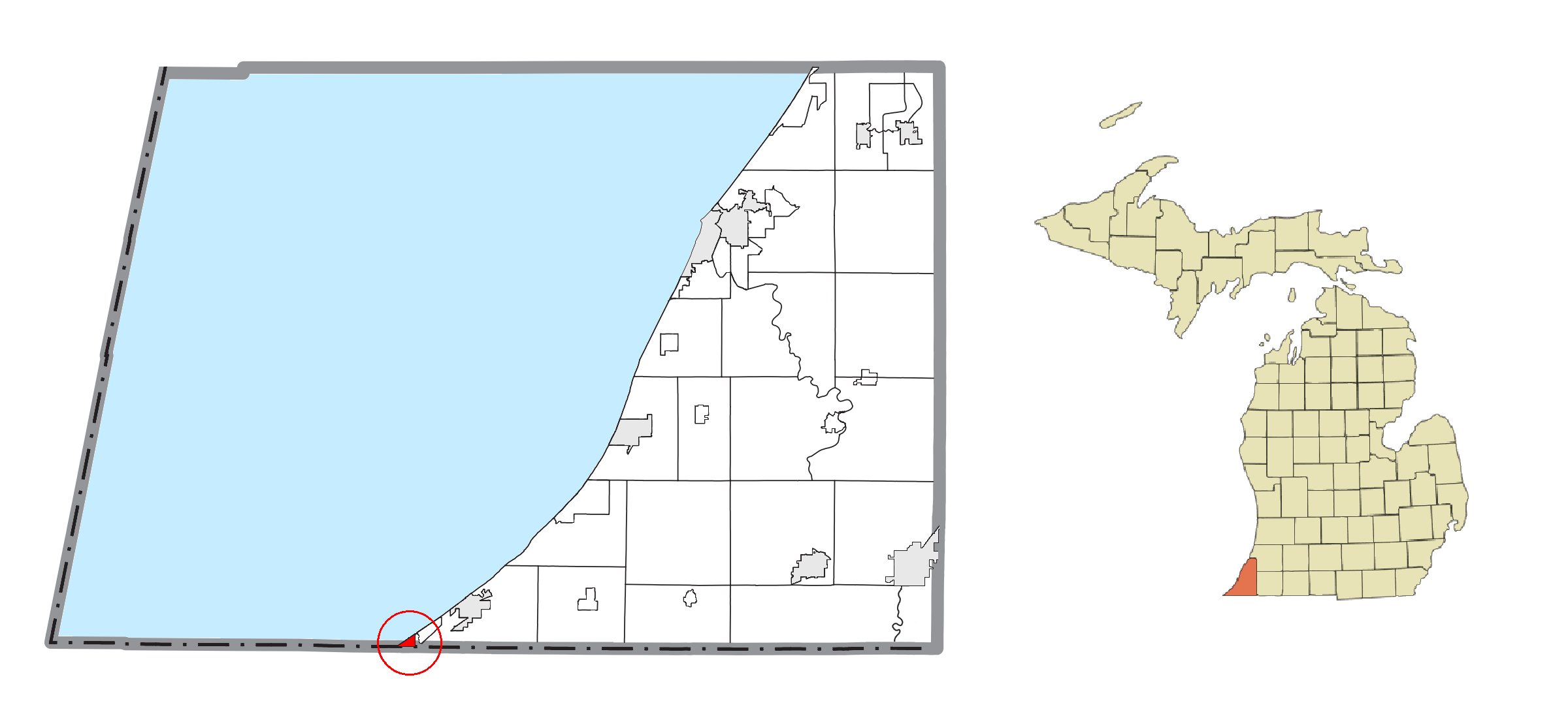 Michiana, MI